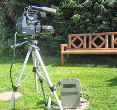 Prior to the camcorder, a portable recorder and camera would be required. This is a Sony SL-F1 Betamax camcorder and camera. Taken from Colin McCormick's web site with permission.